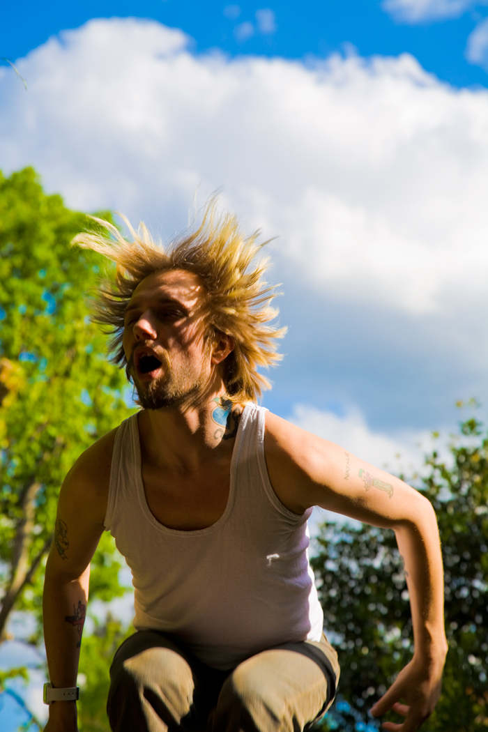 Akira The Don, 2009